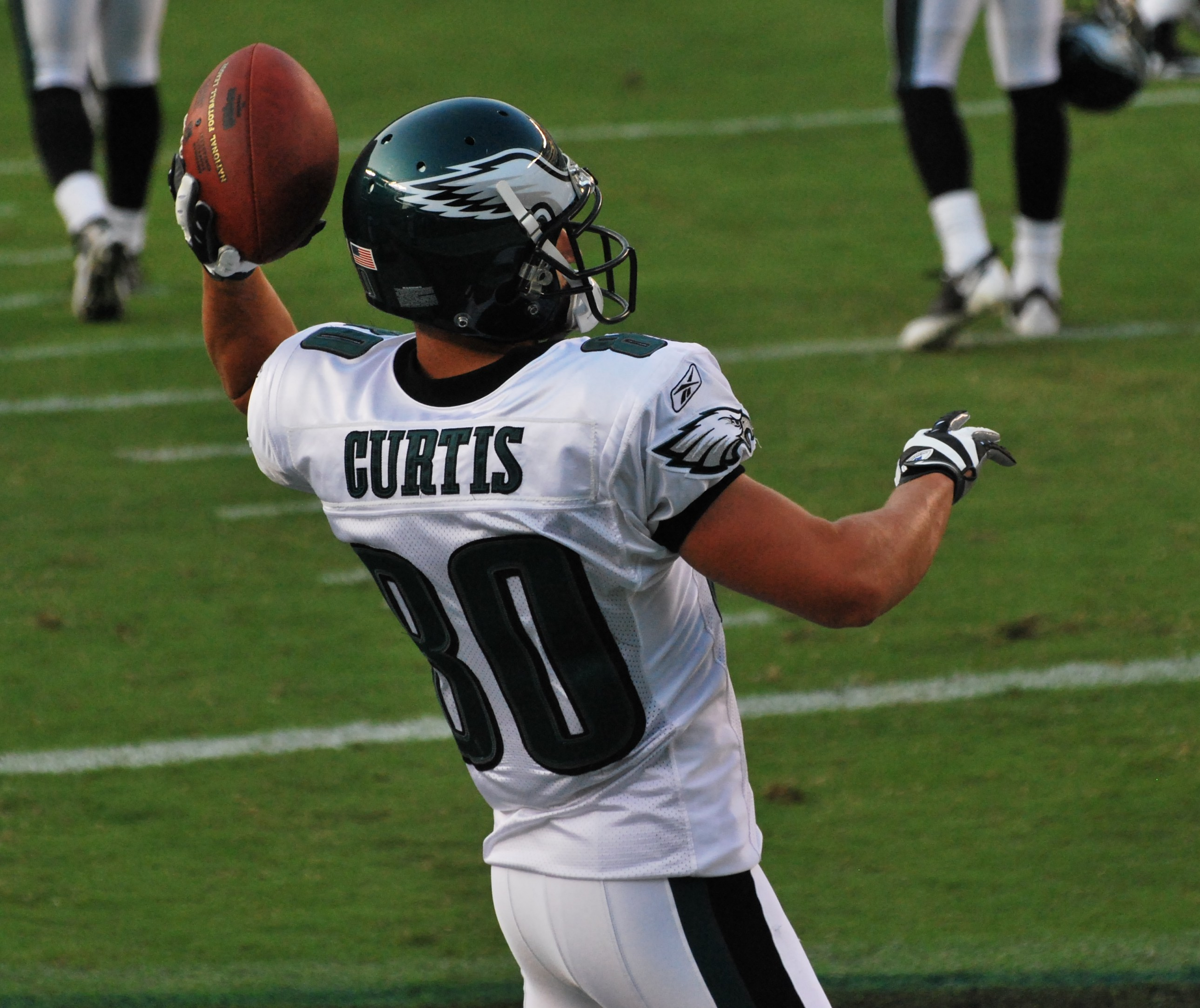 Kevin Curtis in August 2009